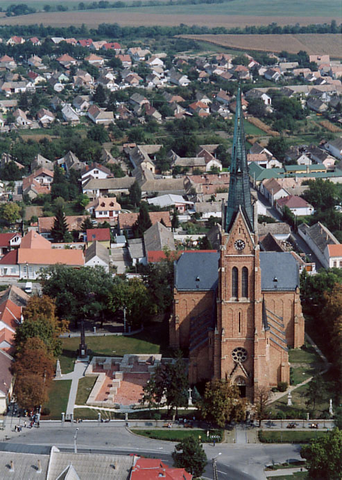 Bátaszék - Hungary - Europe: Roman Catholic Church of Our Lady, Antal Hofhauser, 1902. This is a photo of a monument in Hungary. Identifier: 8550